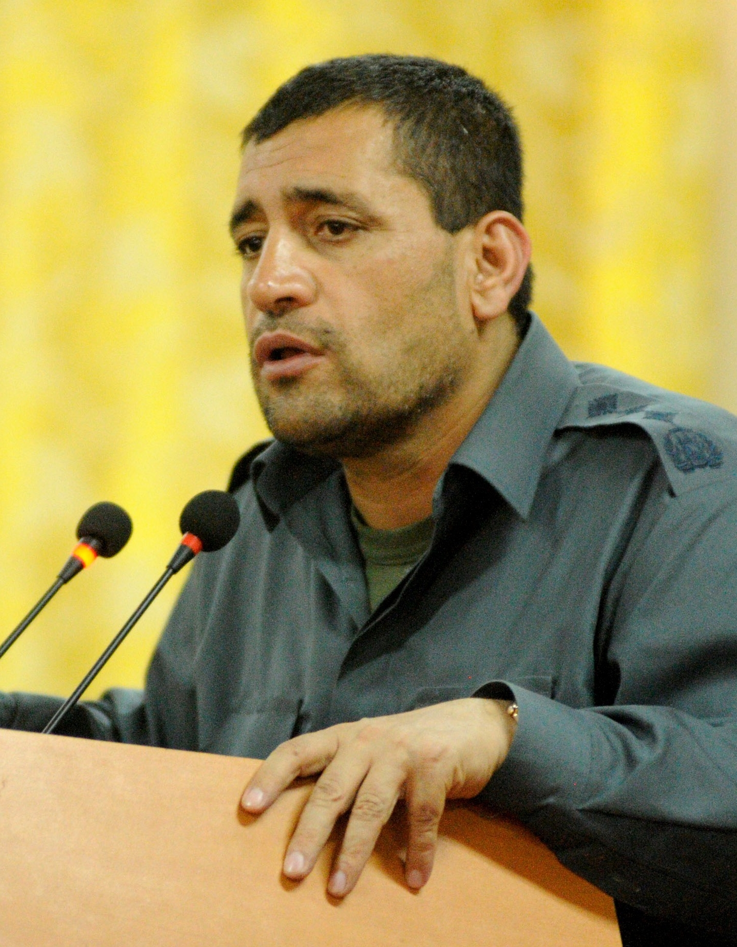 Cropped image of General Mohammad Ayub Salangi, an Afghan Police Officer.